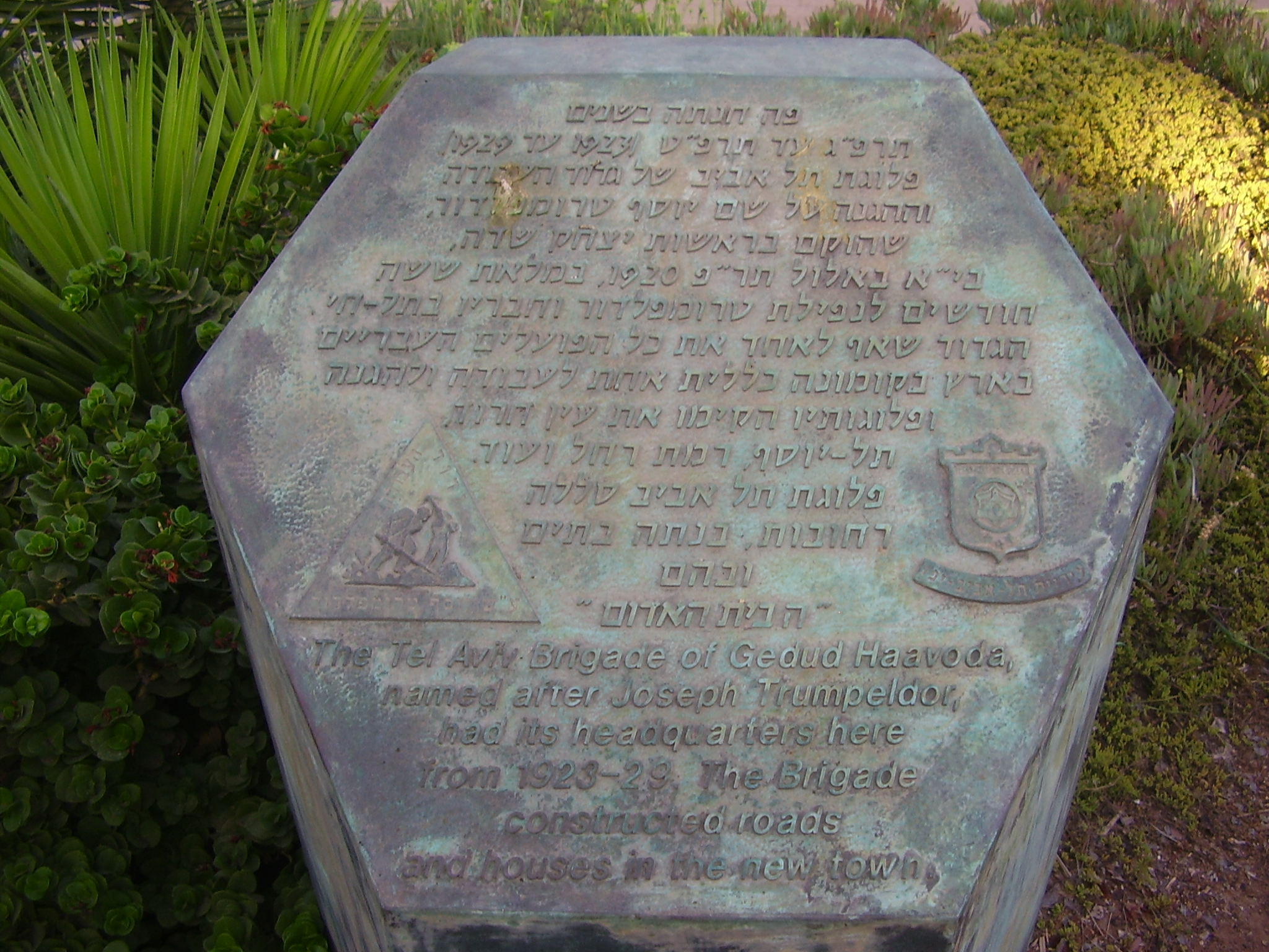 memorial to gdud ha'avoda in tel aviv .(עמוד זיכרון לפלוגת גדוד העבודה בתל אביב (ליד מלון שרתון